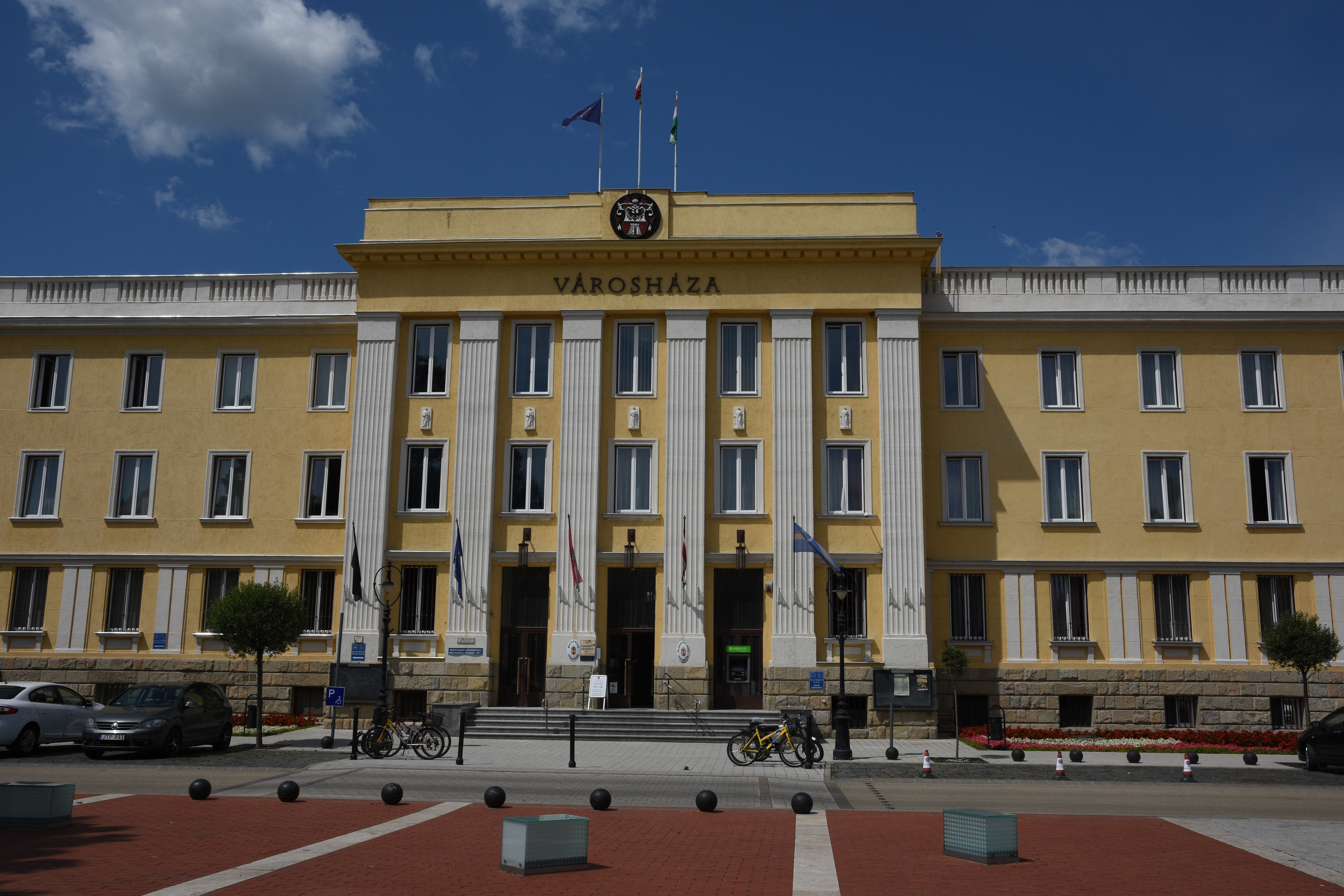 Nagykanizsa Town Hall Cityhall